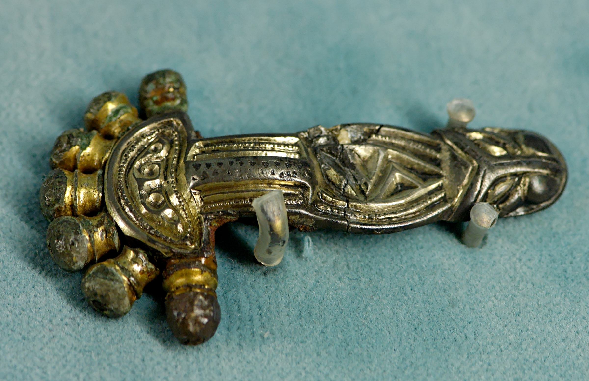 Asymmetrical handle fibula. Gilt impure silver, ca. 500–565. Found in 1889 a Frankish tomb in Fère-en-Tardenois (Aisne, France).